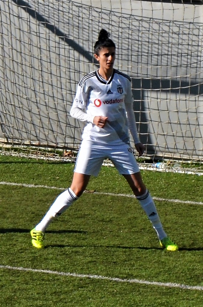 Yağmur Uraz of Beşiktaş J.K. in the 2019-20 Turkish Women's Fişrst League match against Kocaeli Bayan S.K.